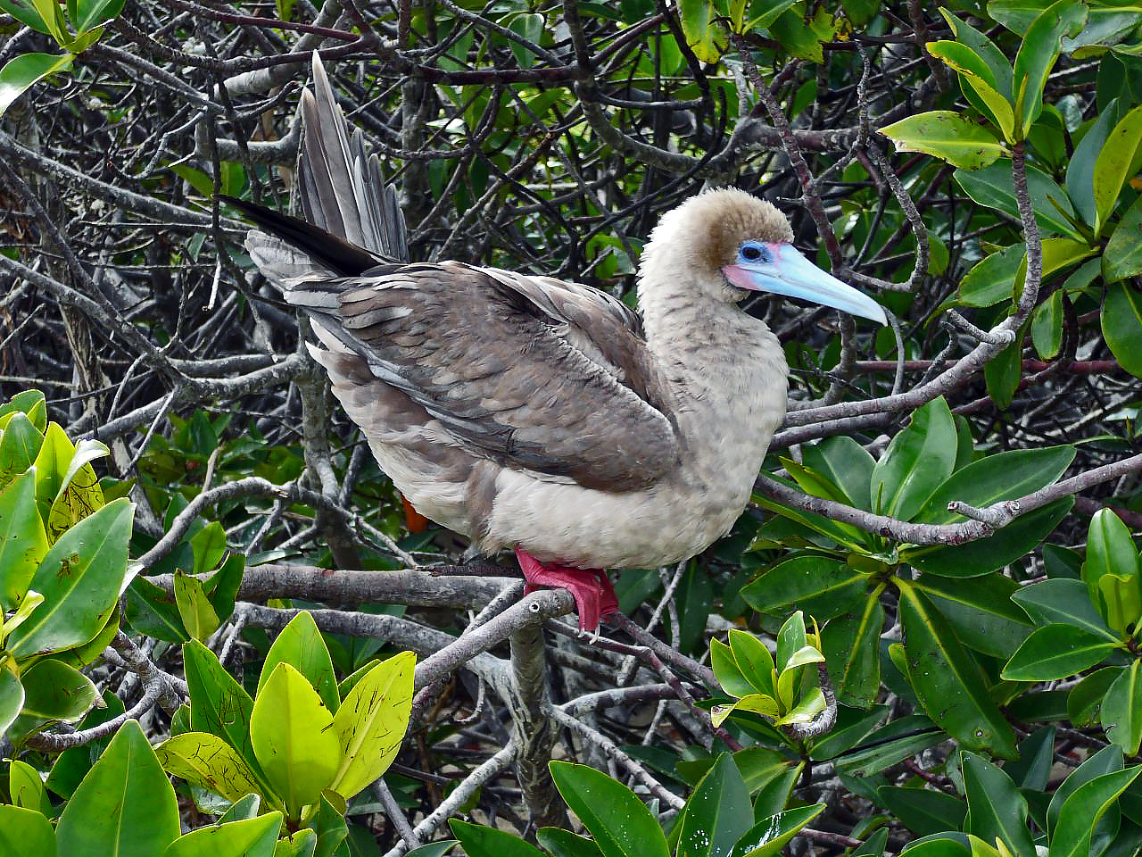 Red-footed Booby (Sula sula) on the Galapagos Islands.